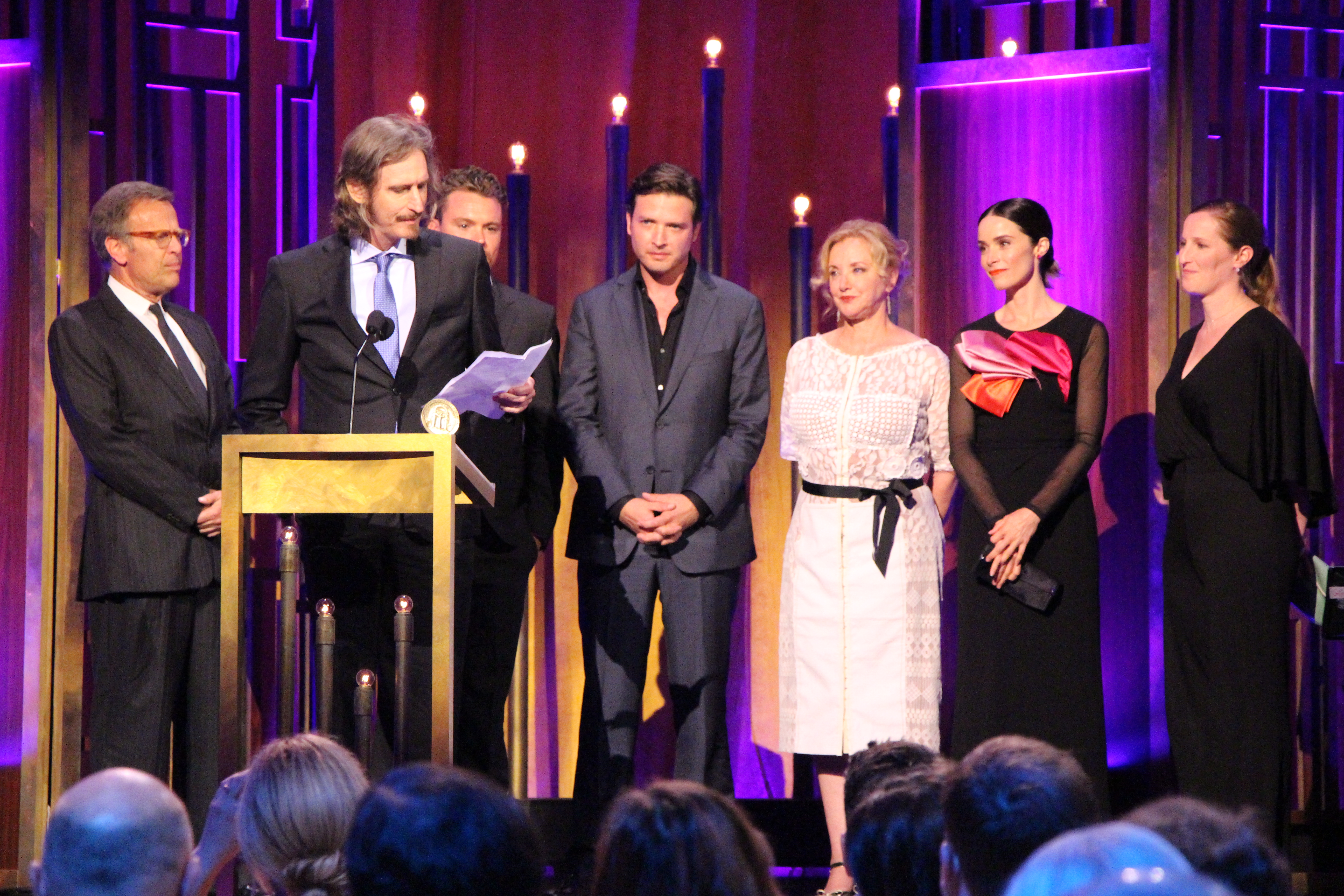 Creator, Writer, Executive Producer Ray McKinnon accepts the Peabody for Rectify. He is joined on stage by Mark Johnson, Clayne Crawford, Aden Young, J-Smith Cameron, Abigail Spencer and Melissa Bernstein.